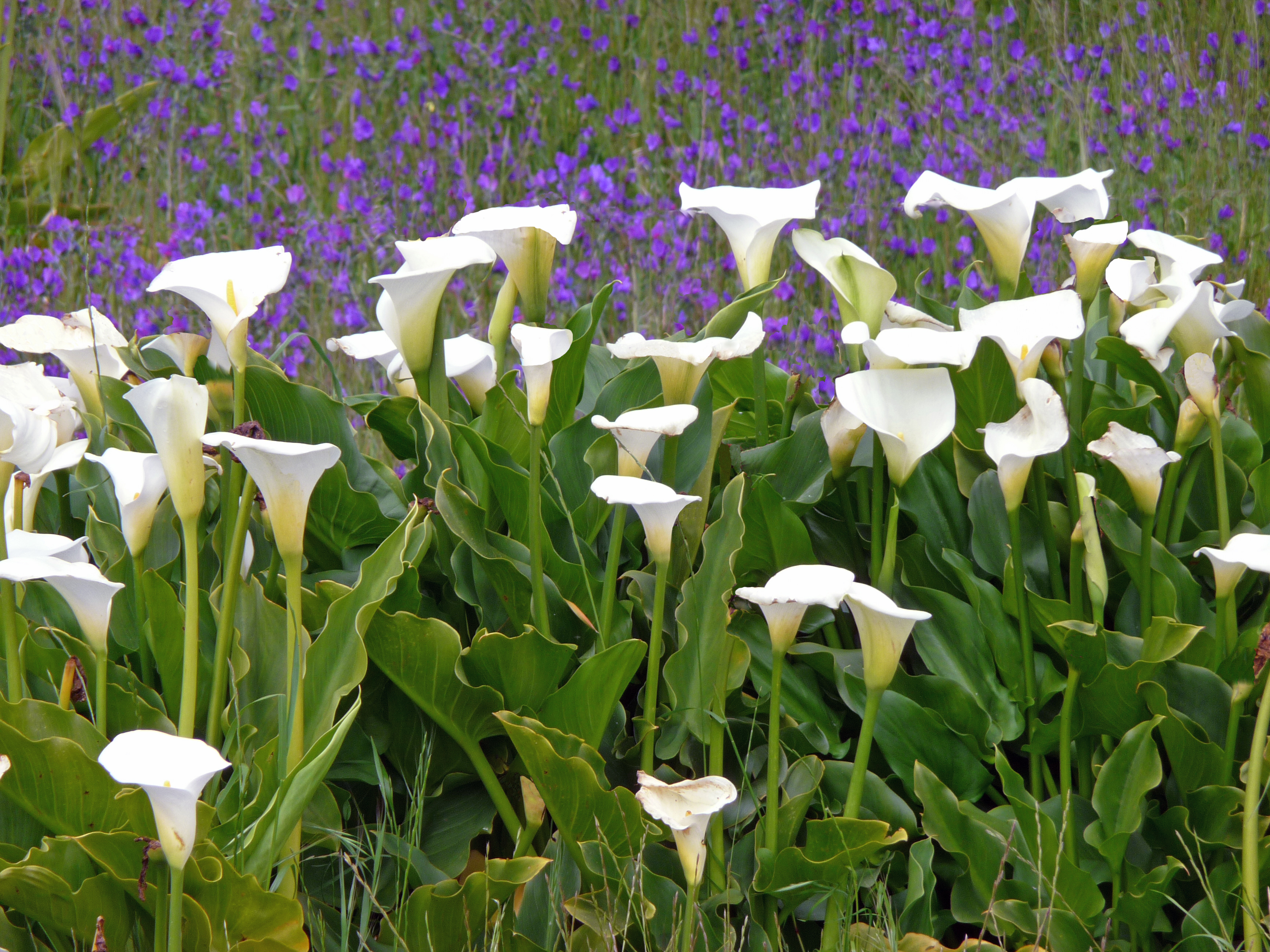 Wild Flowers in Darling, Western Cape, South Africa